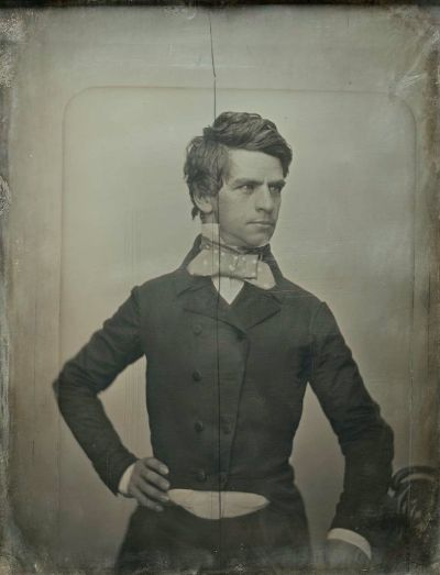 Massachusetts politician and Civil War general Nathaniel Prentice Banks